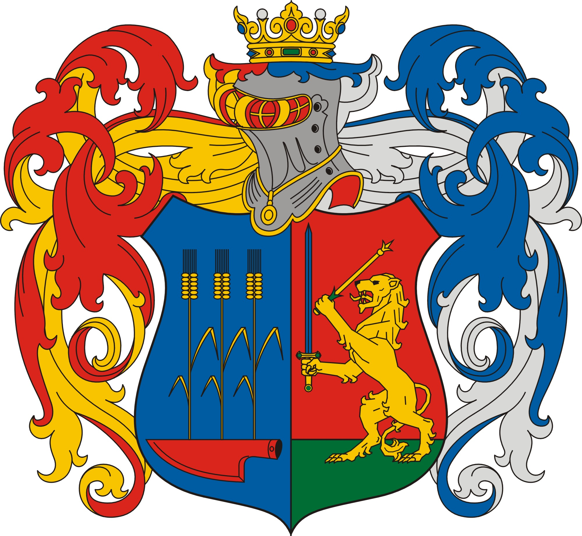 Coat of arms of Bököny, Hungary